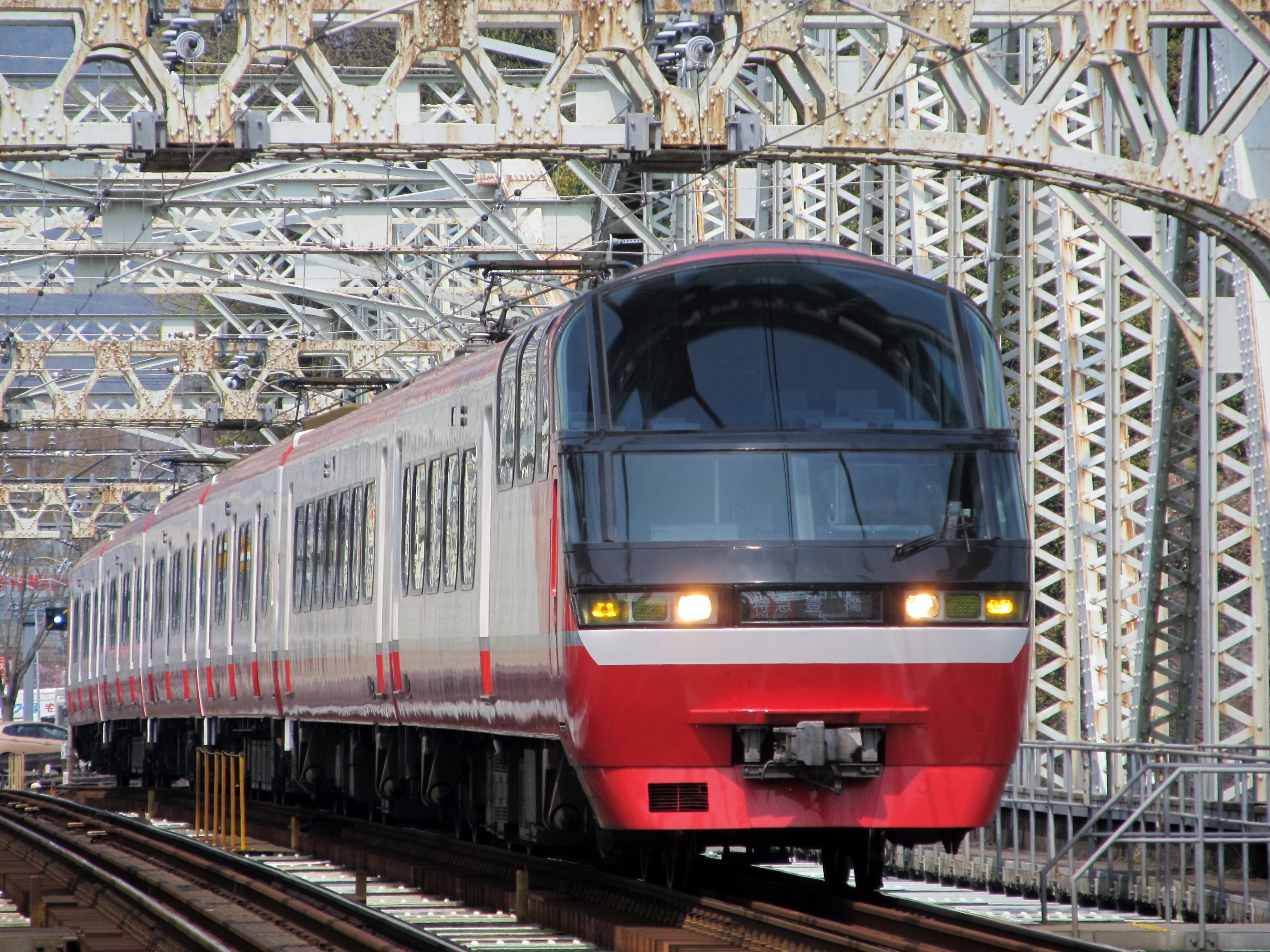 A Meitetsu refurbished 1200 series EMU on a Limited Express service for Toyohashi